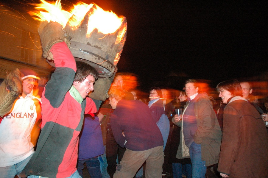 Ottery St Mary Tar Barrels 5th November 2005, Youth's Barrels event. Photo by Simon Davis.